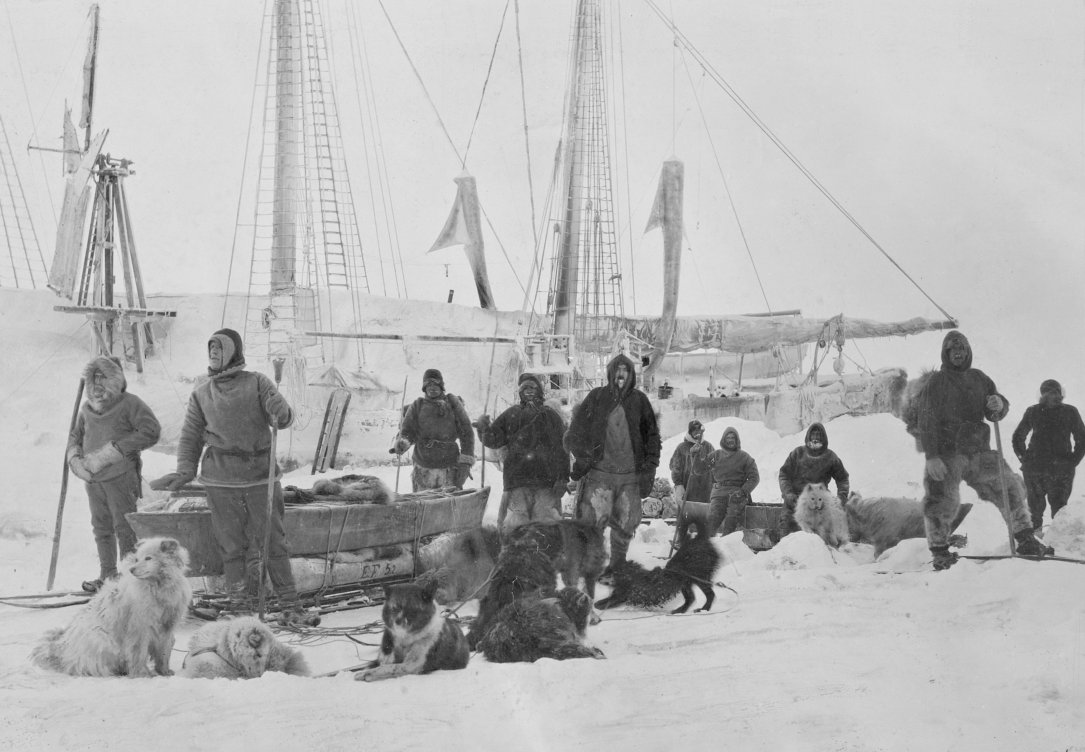 Photograph taken on 14 March 1895 as Nansen prepares to leave his ship Fram and begin his sledge journey to the North Pole.